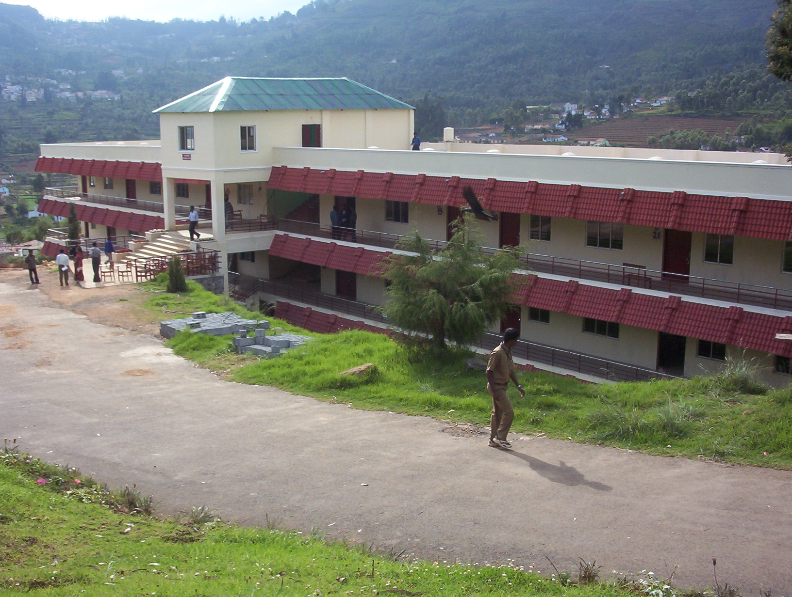 This is a photo of the Mechanical Department block of the CSI College of Engineering taken by me on a Digital camera.